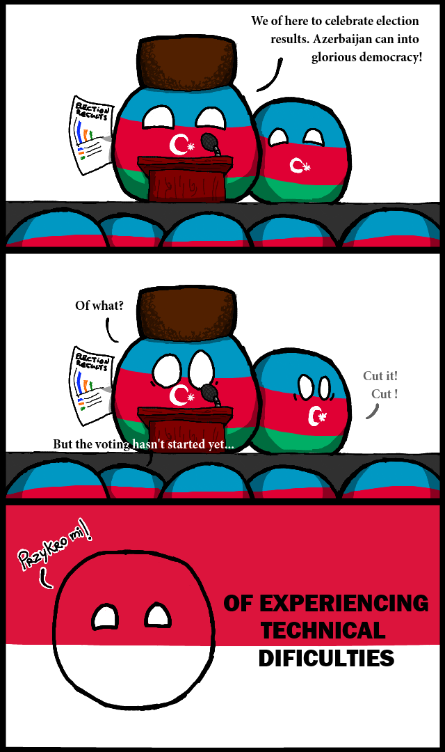 A Polandball comic on the news that Azerbaijan's Central Election Committee had released election results for the country's presidential election a full one day before voting had even begun (news link)